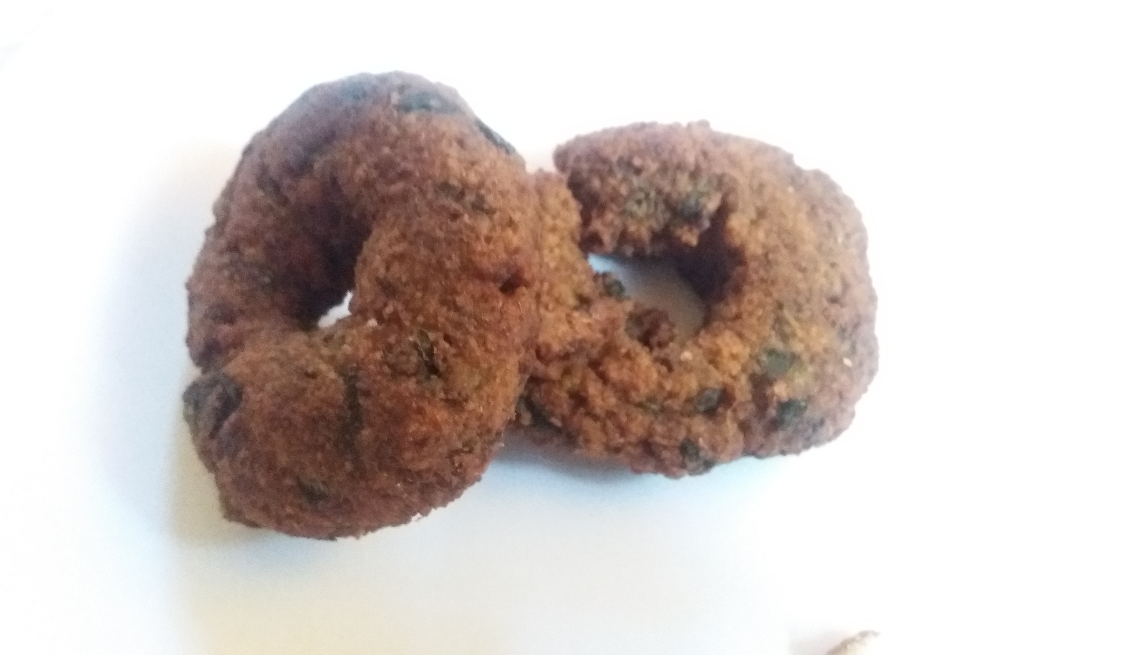 picture of Battuk